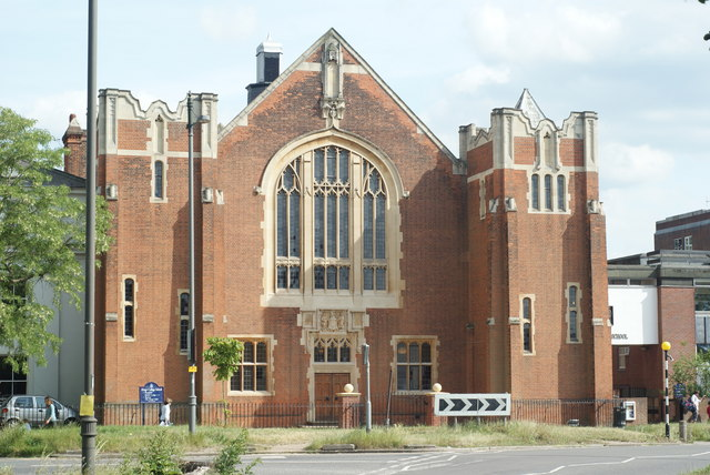 Wimbledon - King's College School Located at the end of Southside Common.